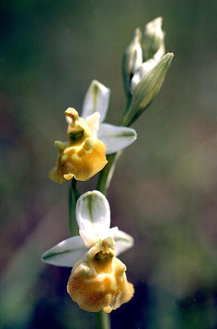 Ophrys holoserica